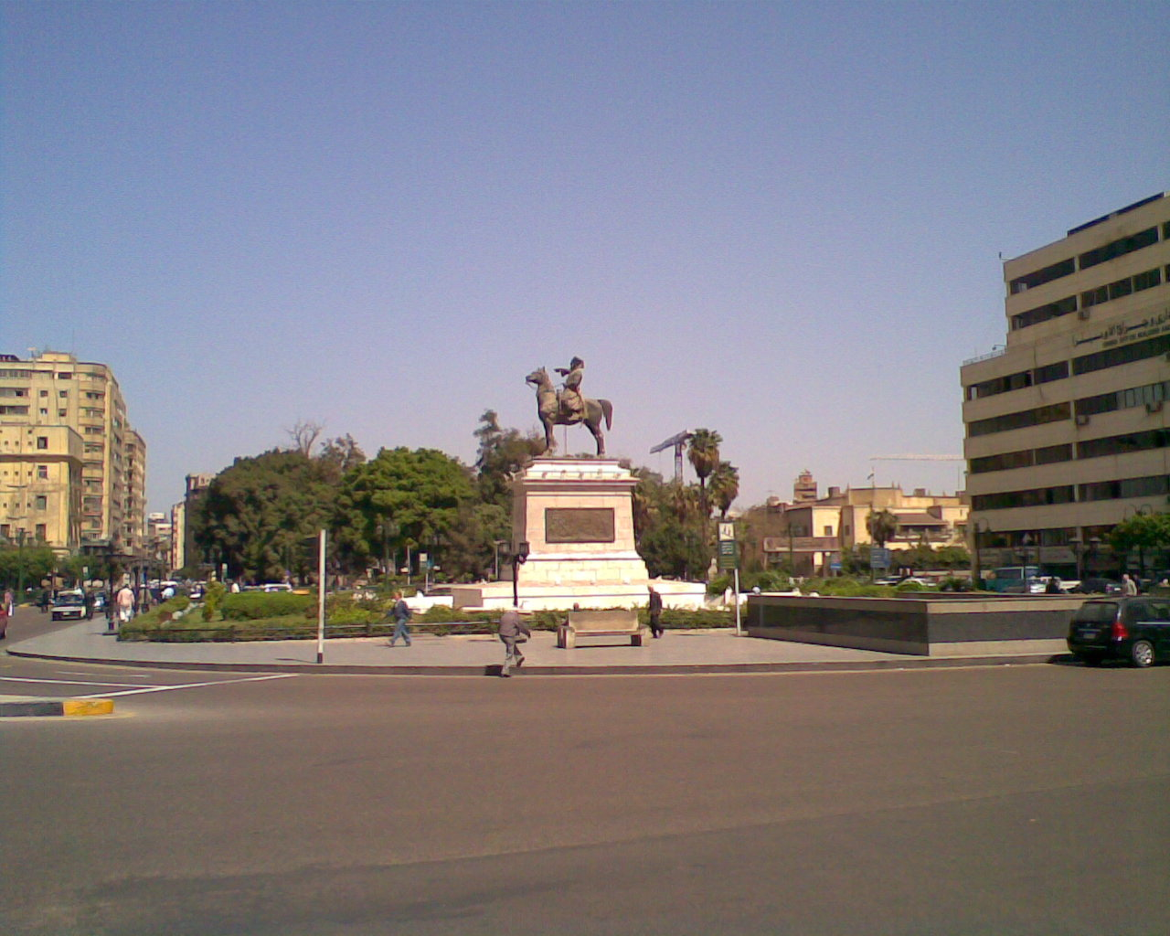 Ibrahim Pasha statue at Opera square, Cairo, Egypt.